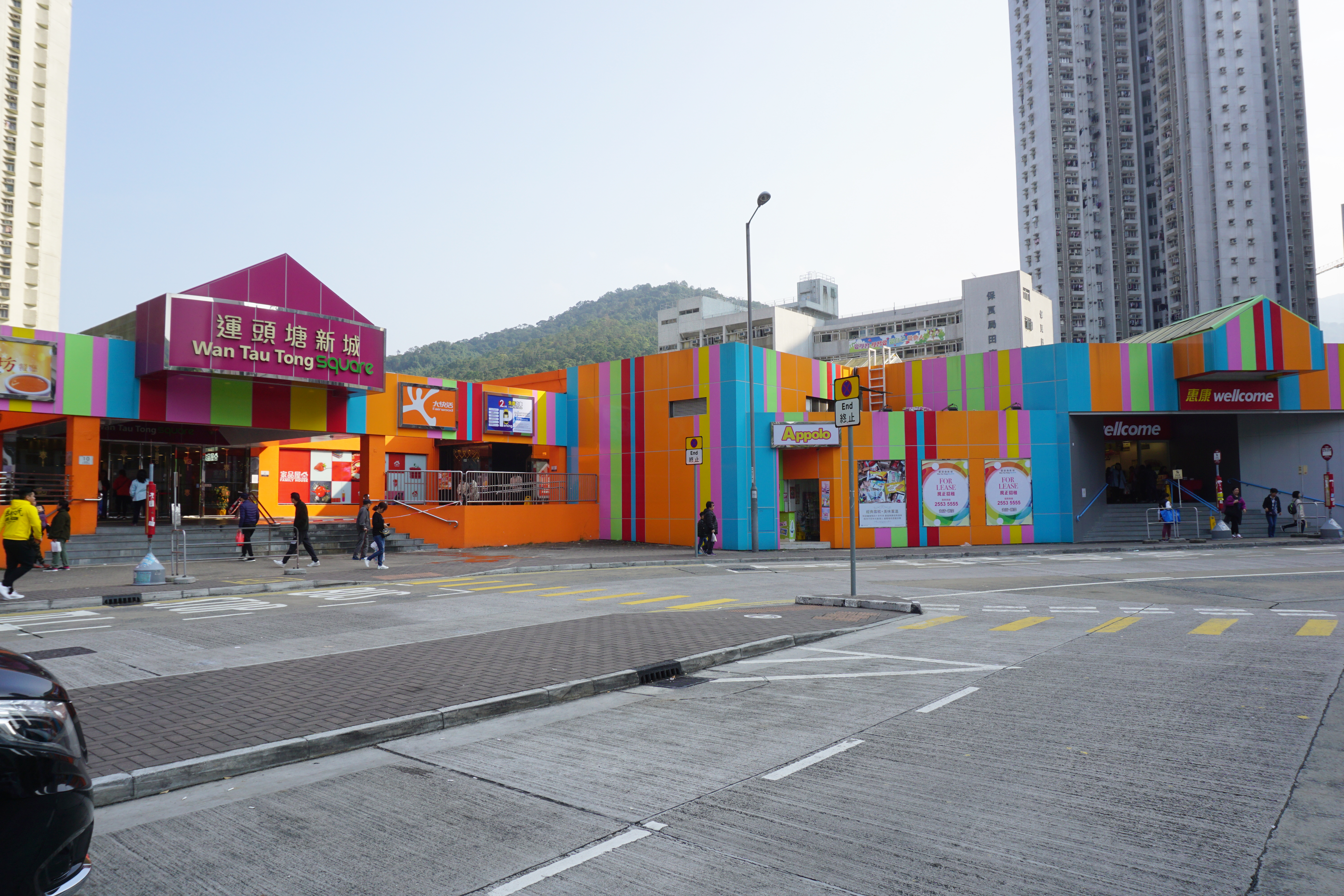 Wan Tau Tong Square in Tai Po, Hong Kong.